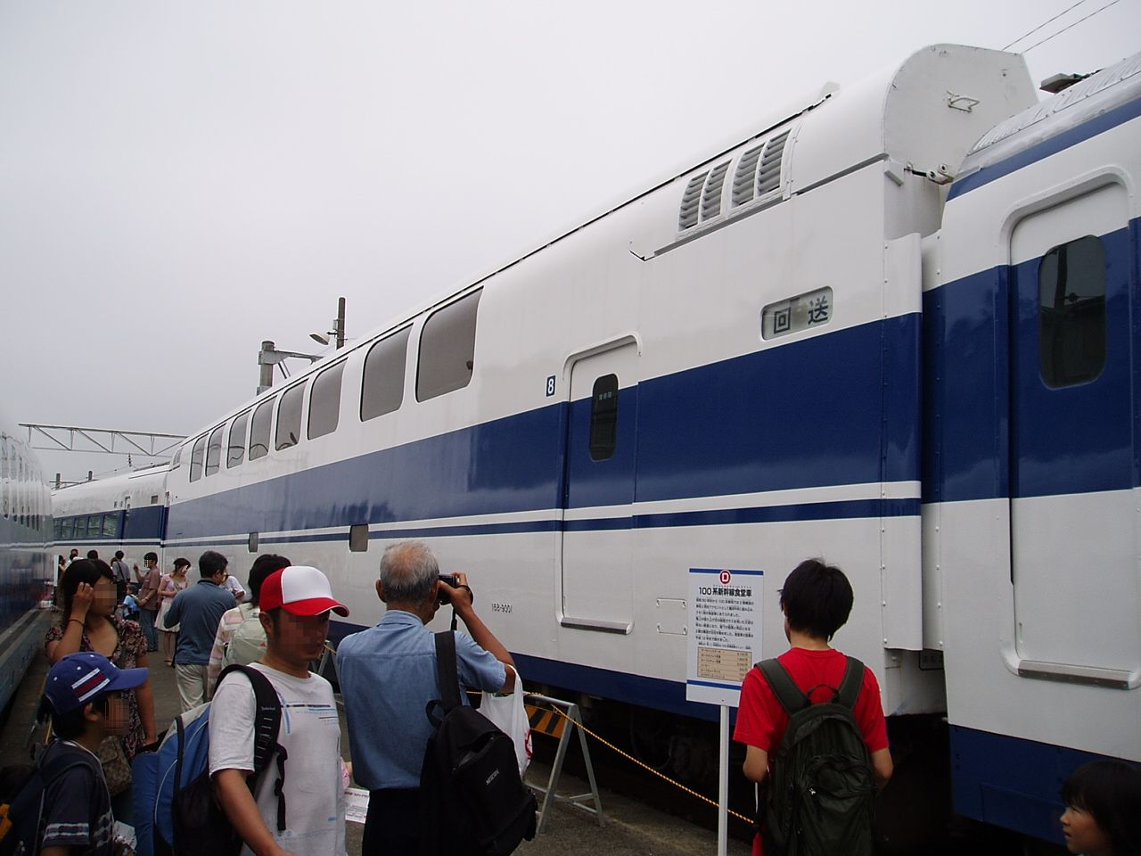 Central Japan Railway Company, Shinkansen 168-9001 At Hamamatsu Dept. 2006.07.23 Photo by Cassiopeia_sweet.